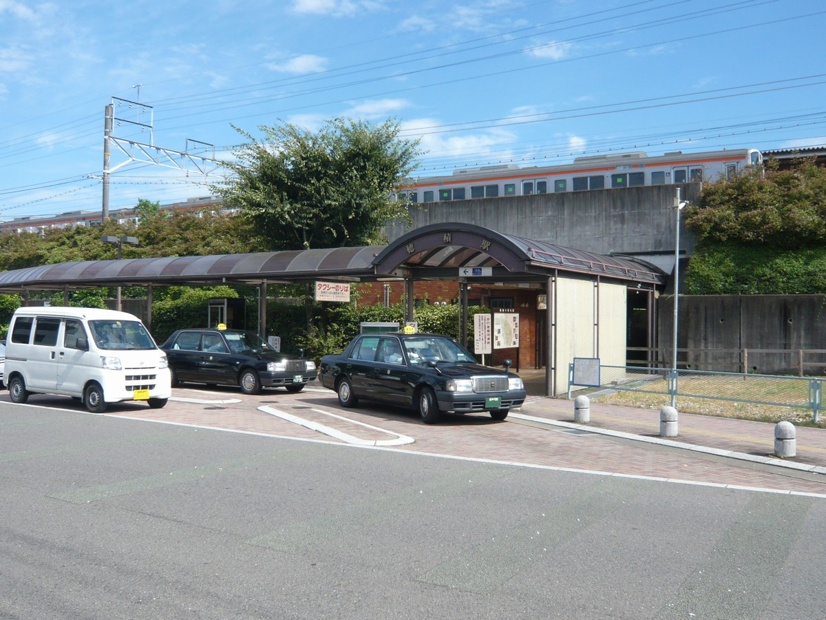 Hozumi Station North exit on the Tōkaidō Main Line, in the city of Mizuho, Gifu Prefecture, Japan